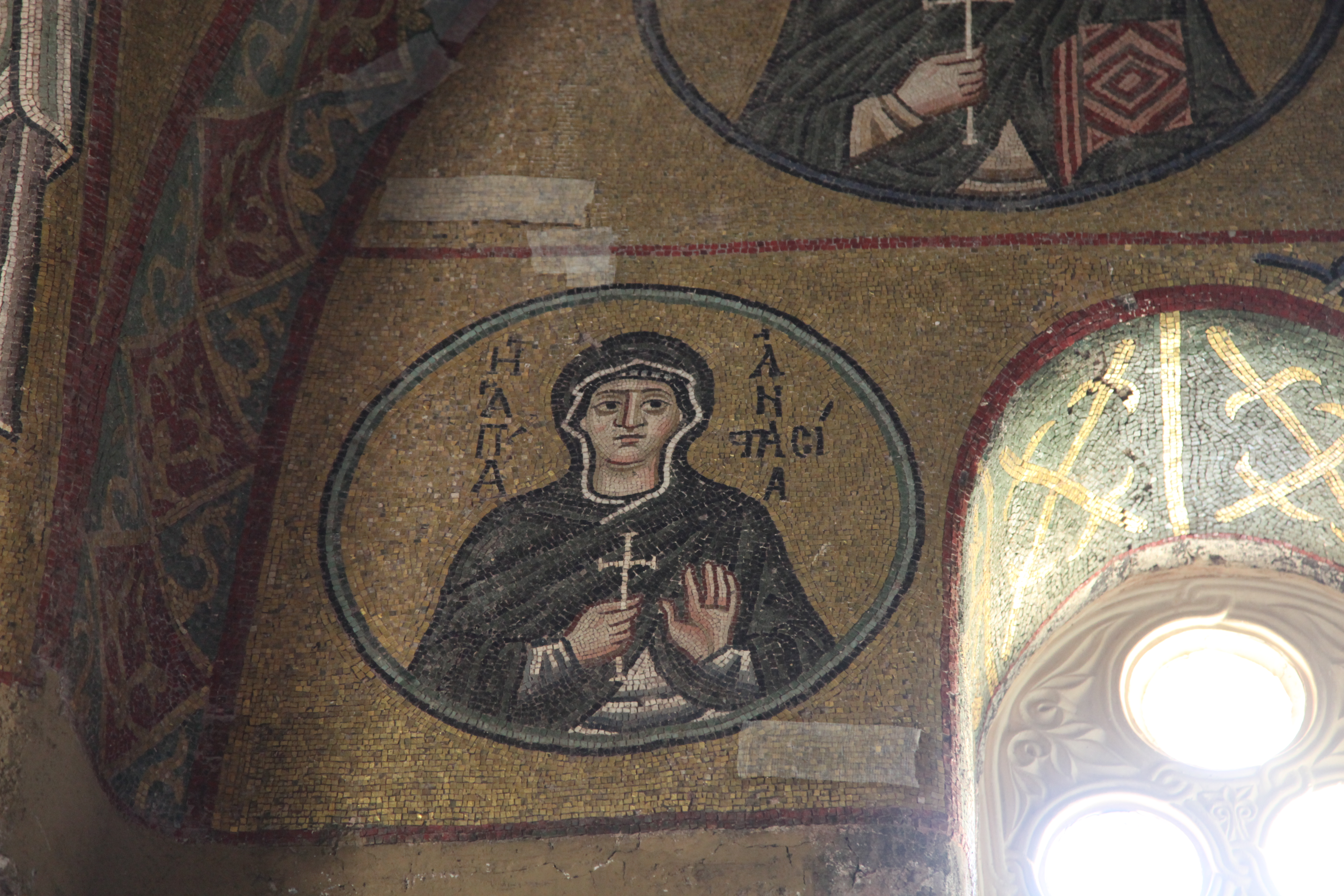 Monastery of Hosios Loukas